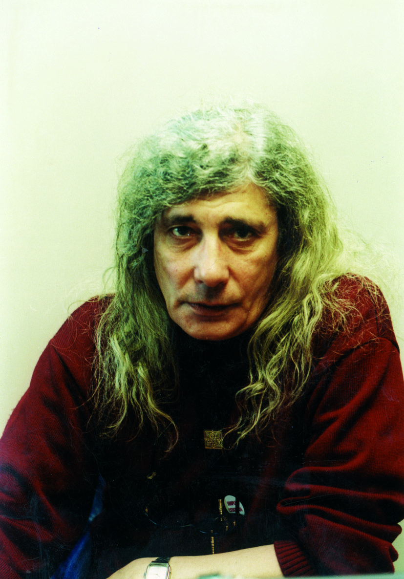 Florian Pittiş, Romanian rock singer